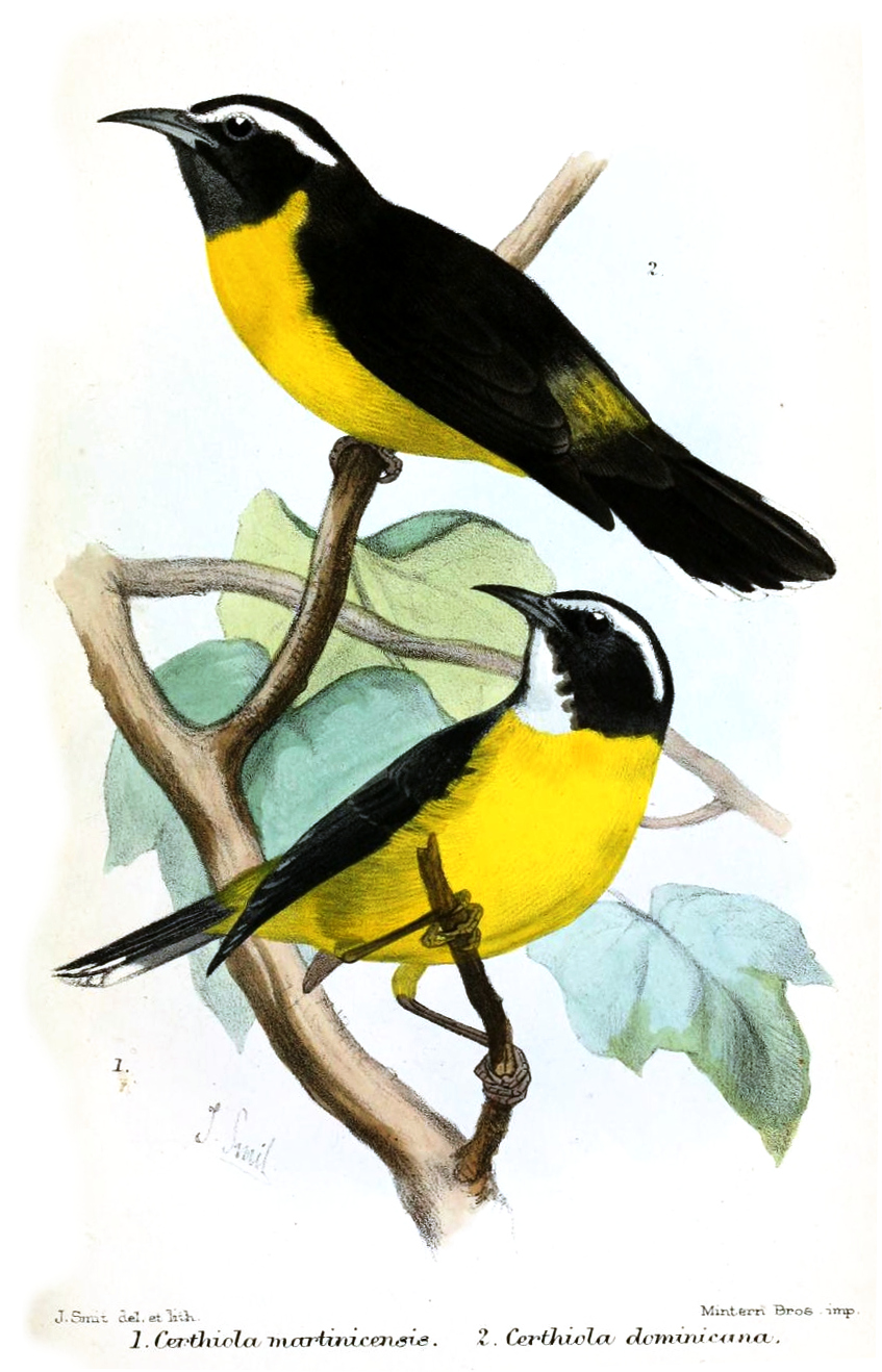 St. Bartholomew Bananaquit (above), Martinique Bananaquit (below)